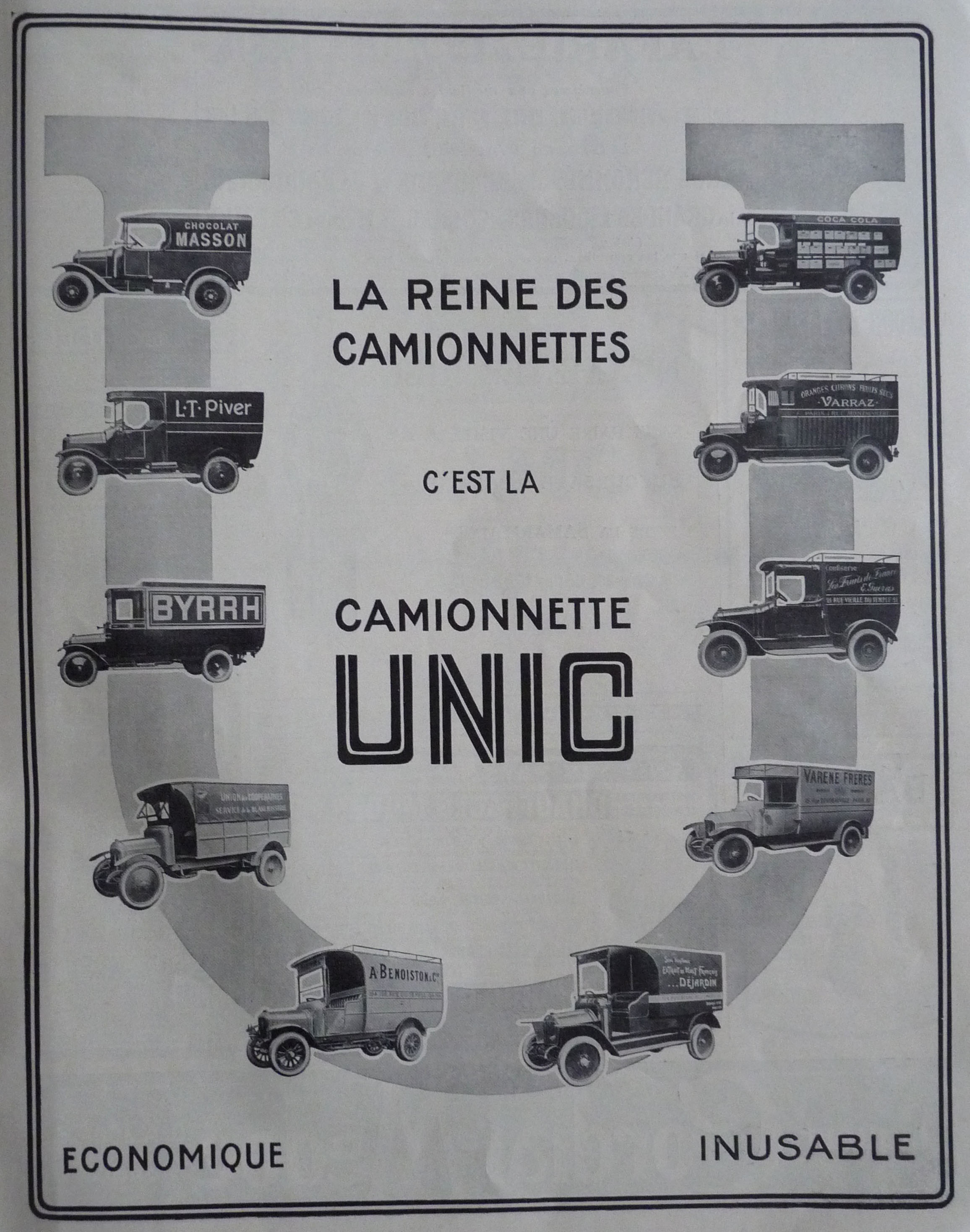 UNIC advertisement of 1923